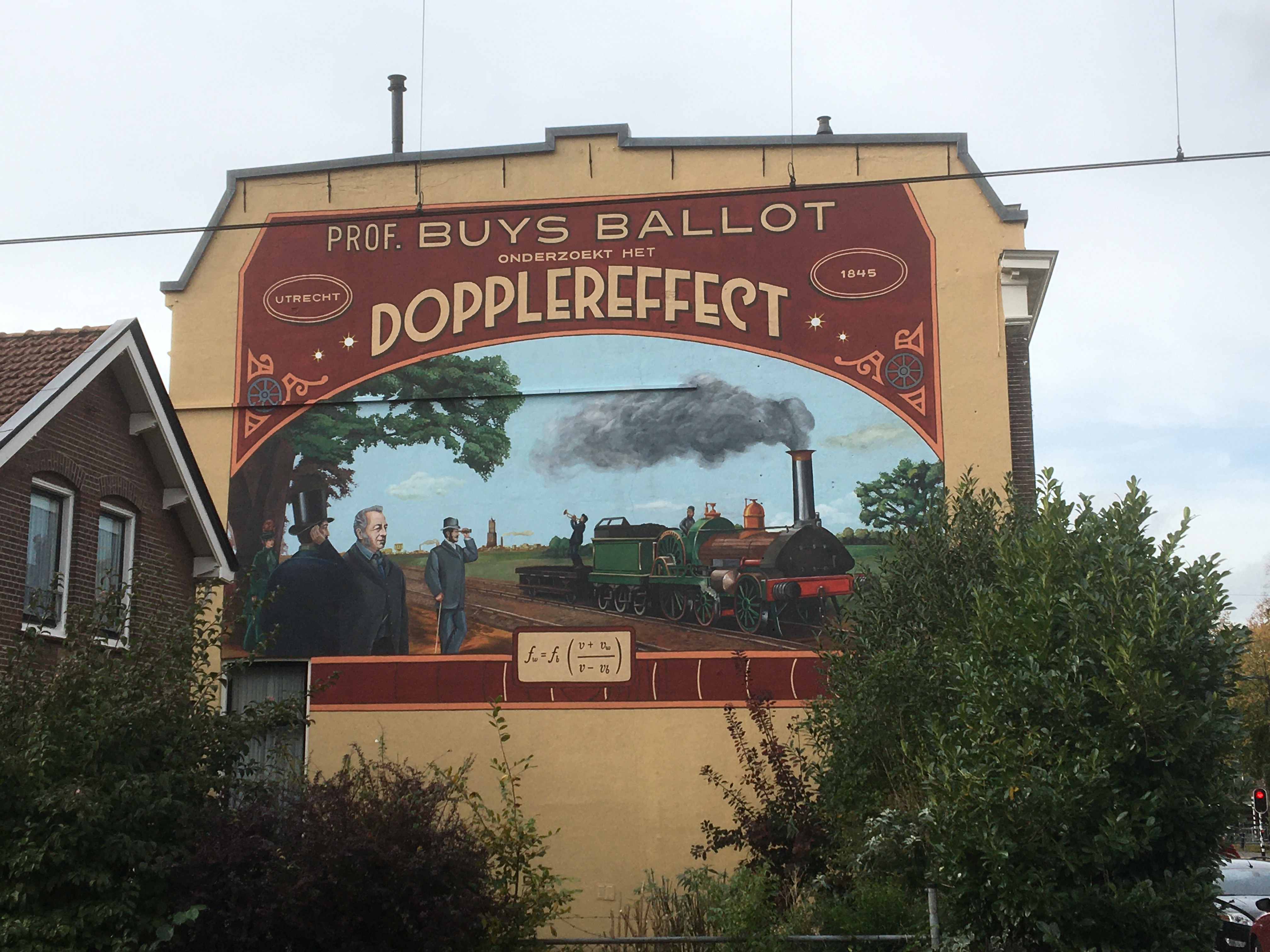 This is the 8th wall formula in the Netherlands (the first 7 are in Leiden). This Utrecht one is very different in style than the Leiden ones and depicts an experiment to test a formula, rather than the formula itself. The Doppler effect is the phenomenon that sounds (or light) changes its frequency to the observer if the source has a non-zero velocity (to or fro). It is known to everyone who has heard an ambulance pass by. Prof. Buys Ballot tested it using a horn blower on a train.